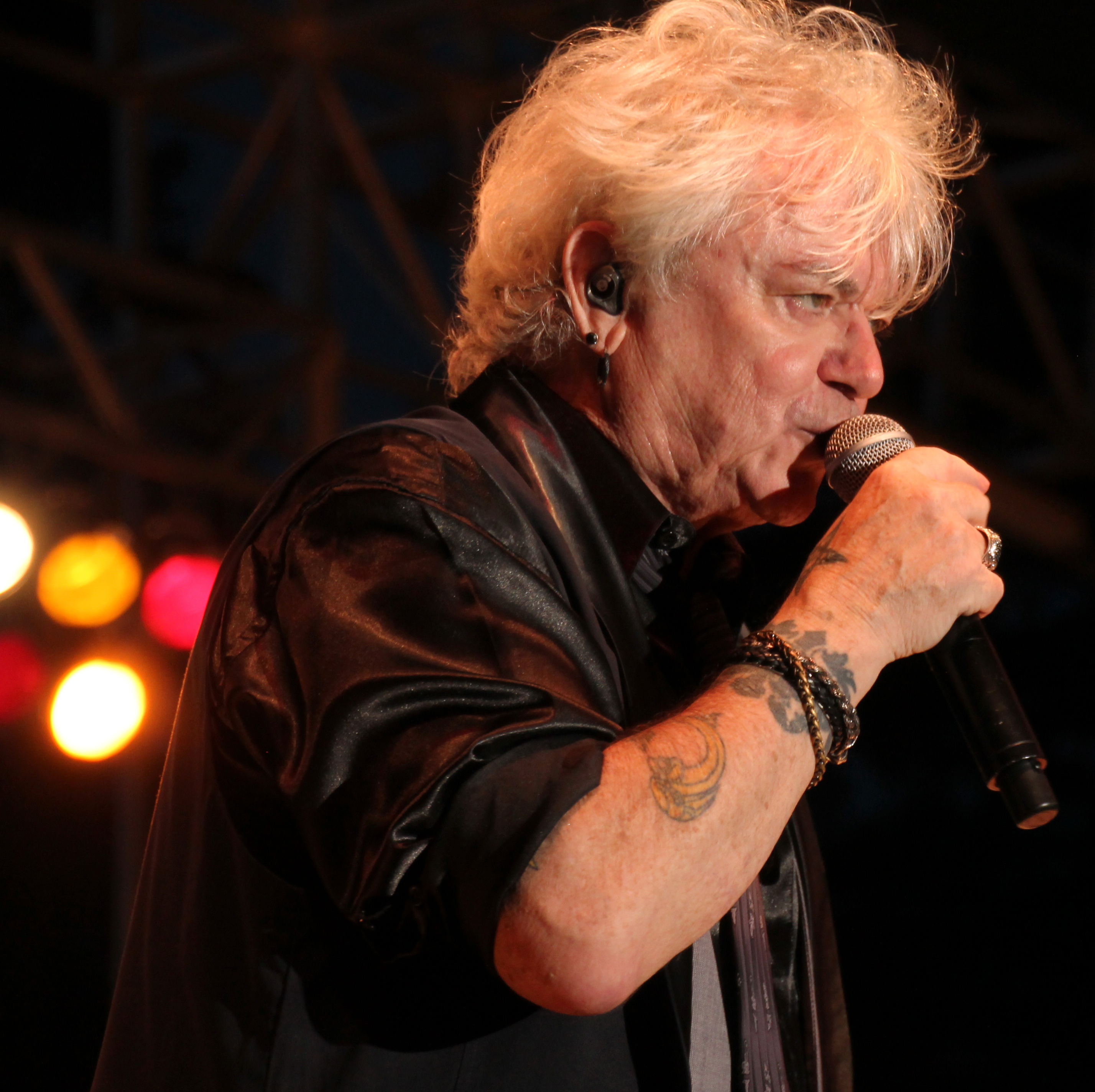 Air Supply live at the Napa County Fairgrounds, Napa, California, 2015